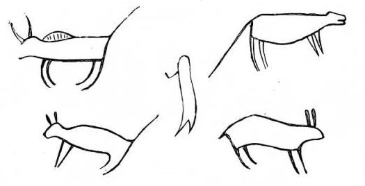 Creatures drawn by some unknown Native American probably before the early 1700s, scratched into the sandstone inside Samuel's Cave near Barre Mills, Wisconsin. This image is an etching based on a tracing of the image.